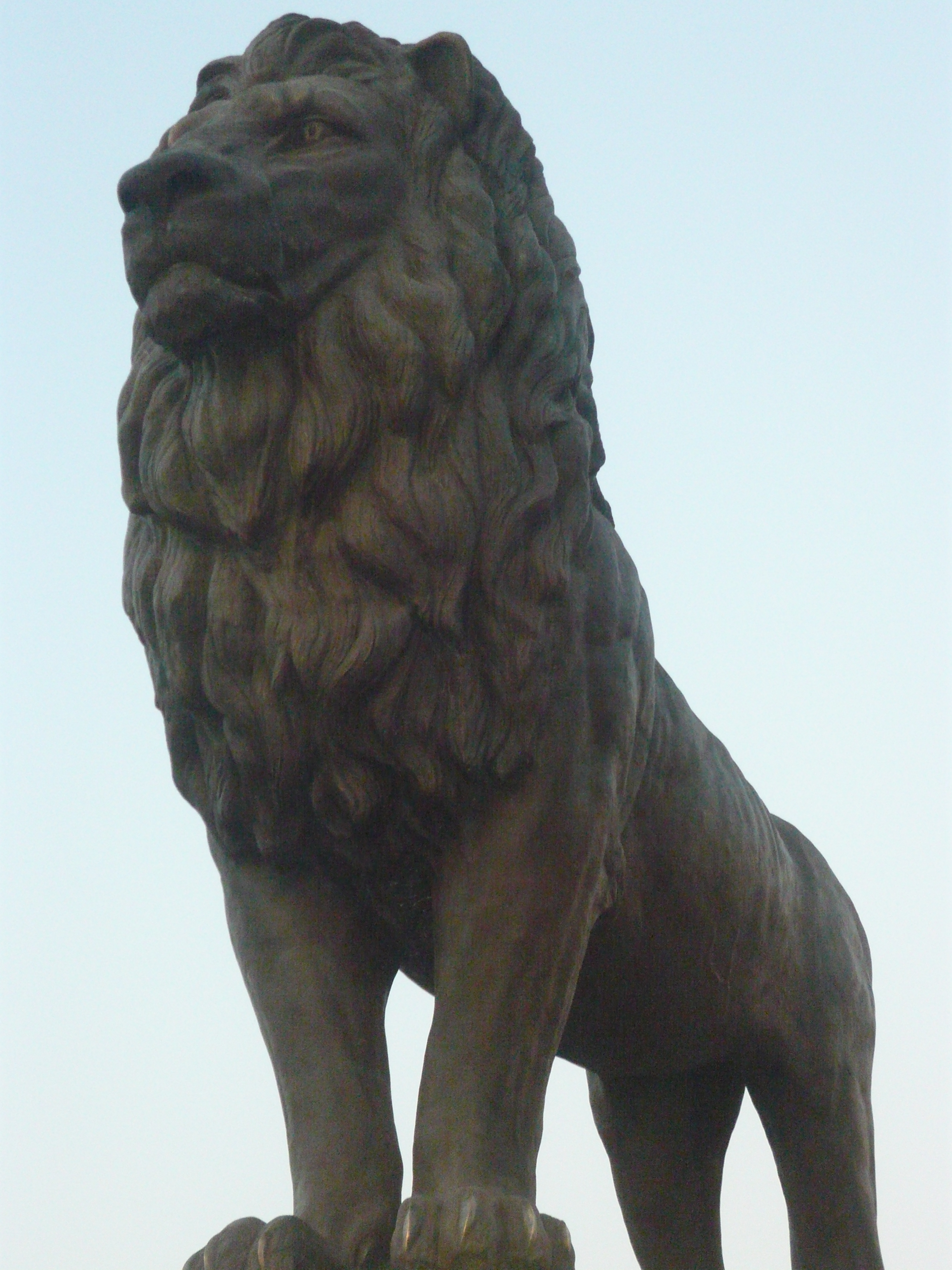 Statue of a Macedonian Lion on Goce Delcev Bridge in Skopje, Republic of Macedonia.